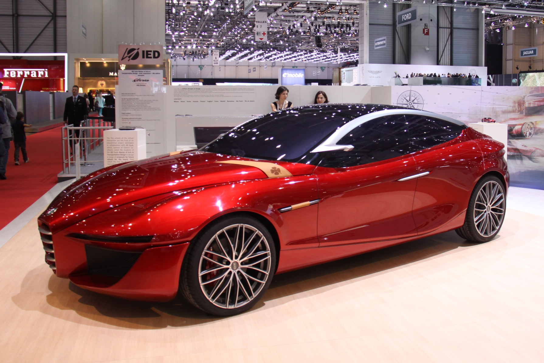 Alfa Romeo Gloria concept car displayed on the IED stand at the 2013 Geneva Motor Show